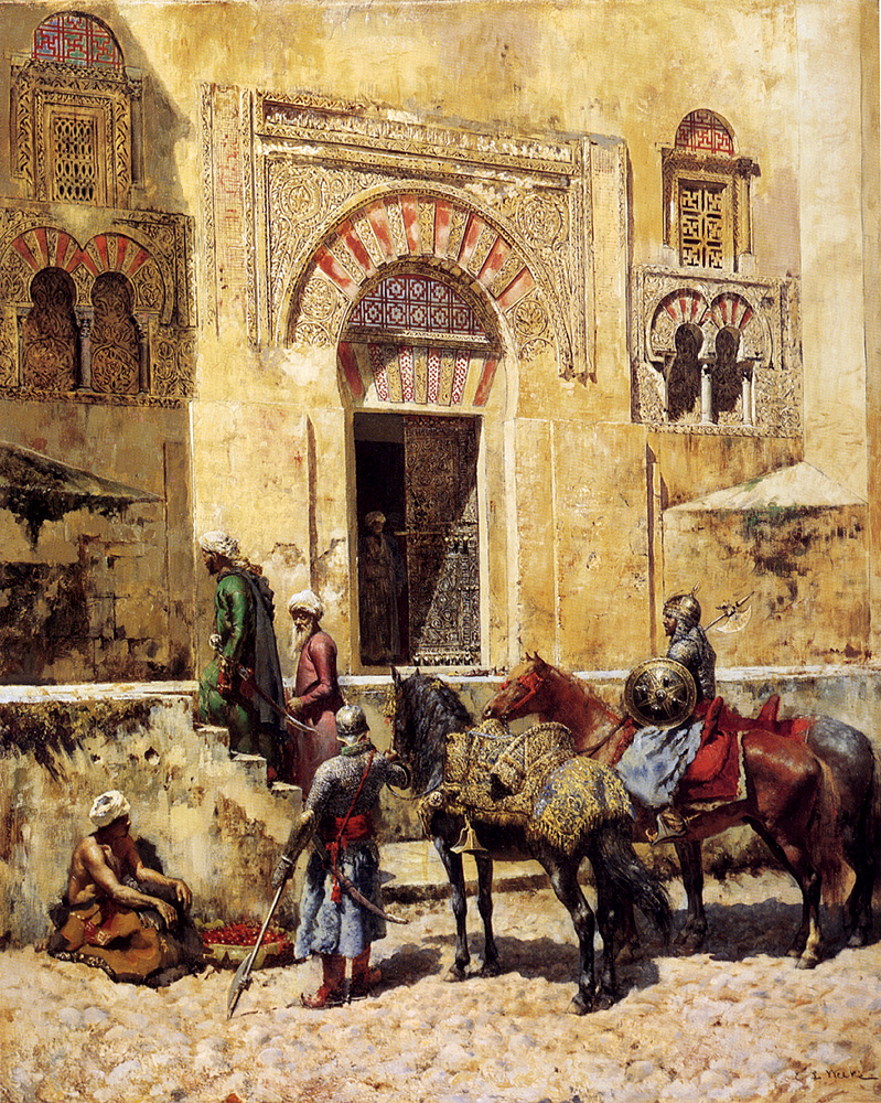 Weeks_Edwin_Entering_The_Mosque_1885